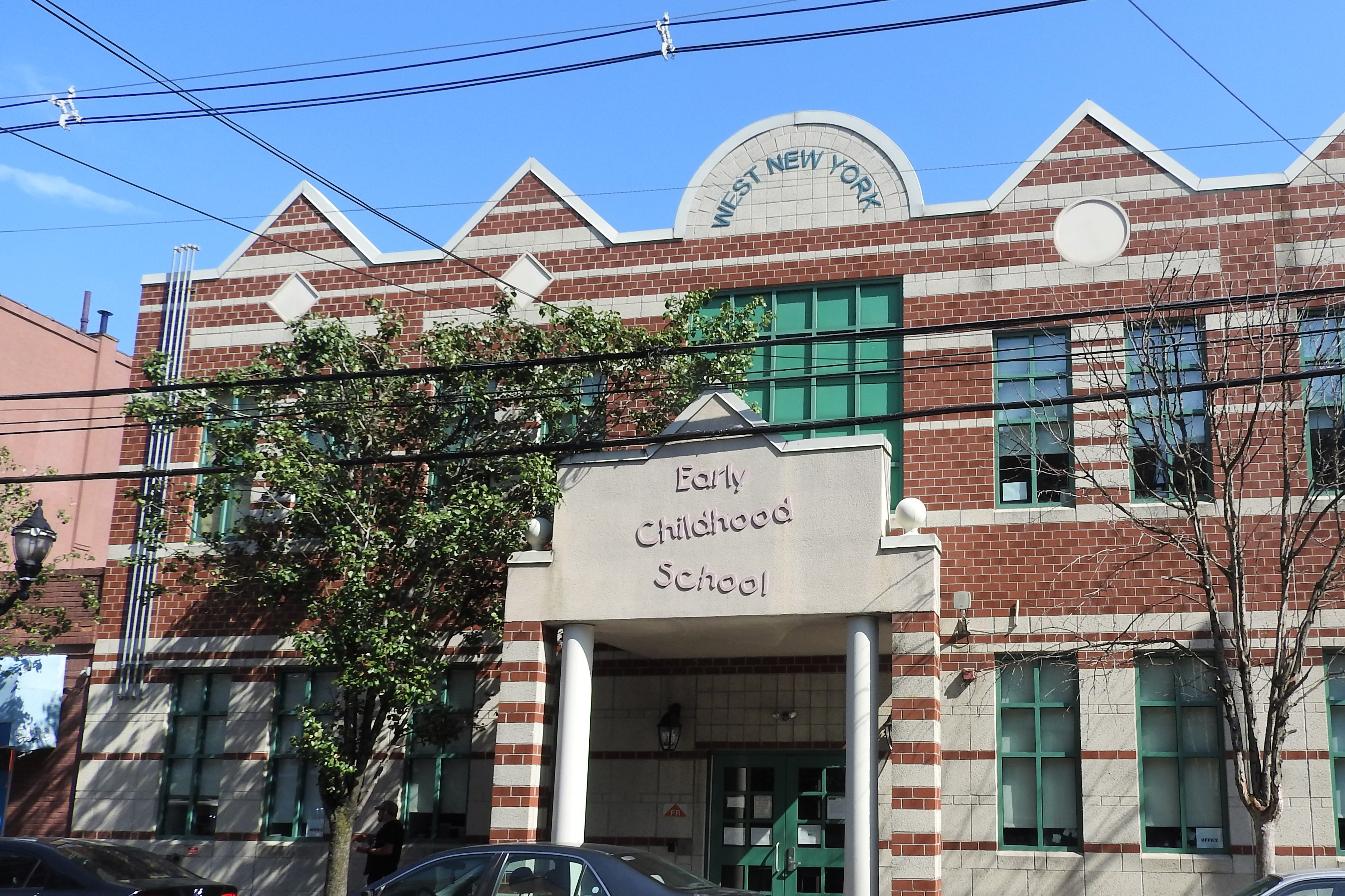 Looking east across Hudson Avenue at a school on a sunny late afternoon